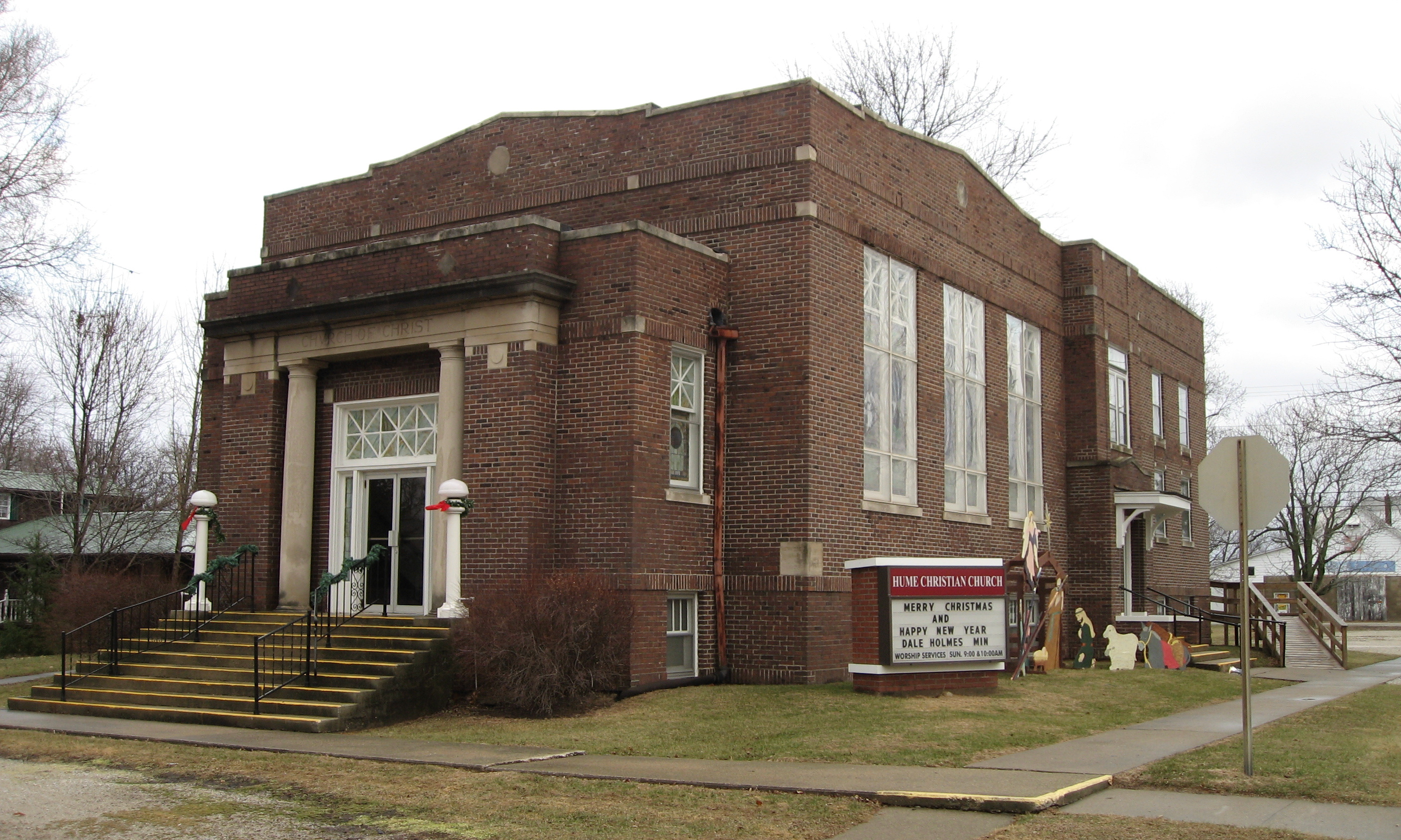 Christian Church of Hume, Illinois, USA. Photo taken from intersection of First Street and Center Street.